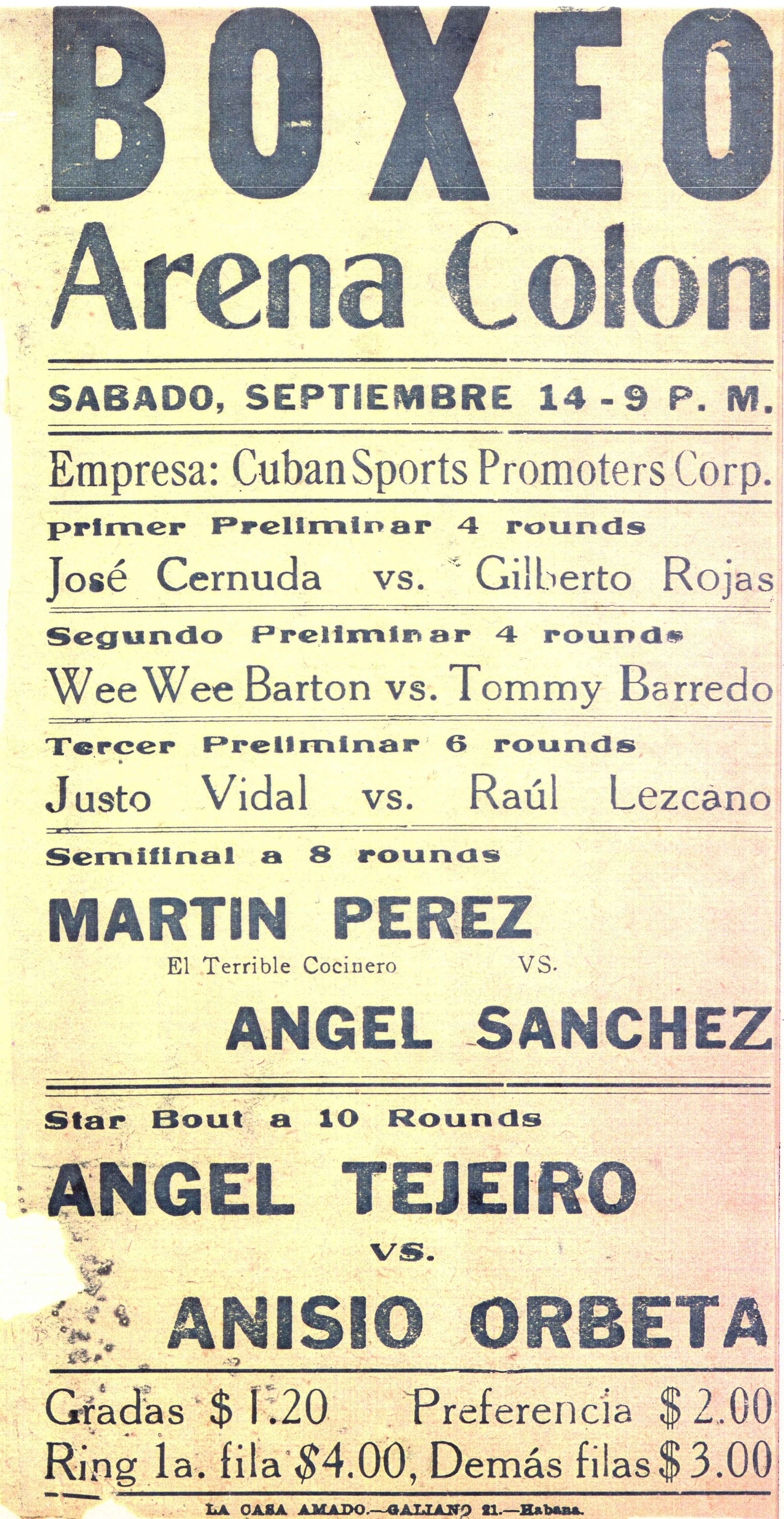 Poster of boxing combat between Angel Tejeiro and Anisio Orbeta